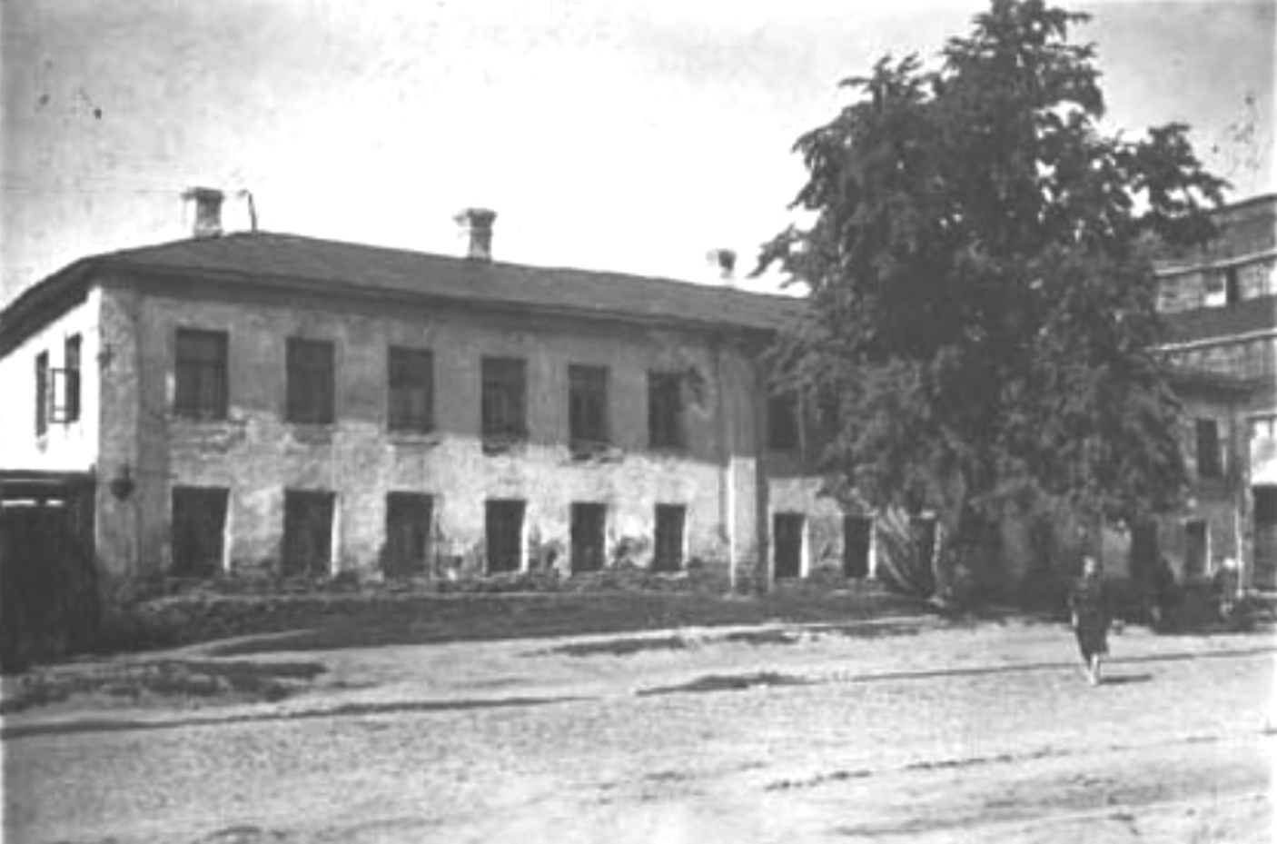 Nechaev's birthplace